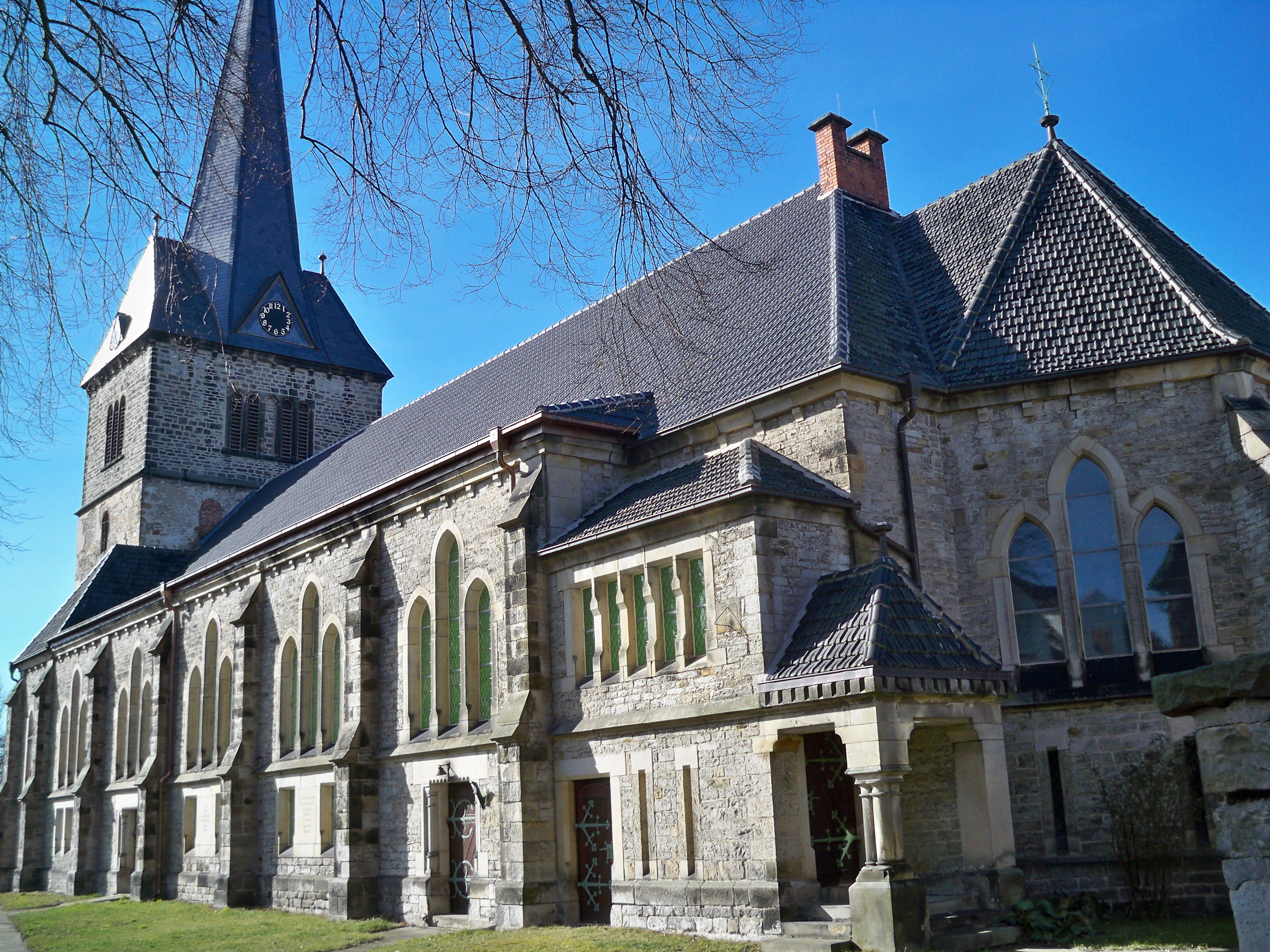 Oebisfelde, Oebisfelde-Weferlingen, Saxony-Anhalt, Nicolaikirche from south east